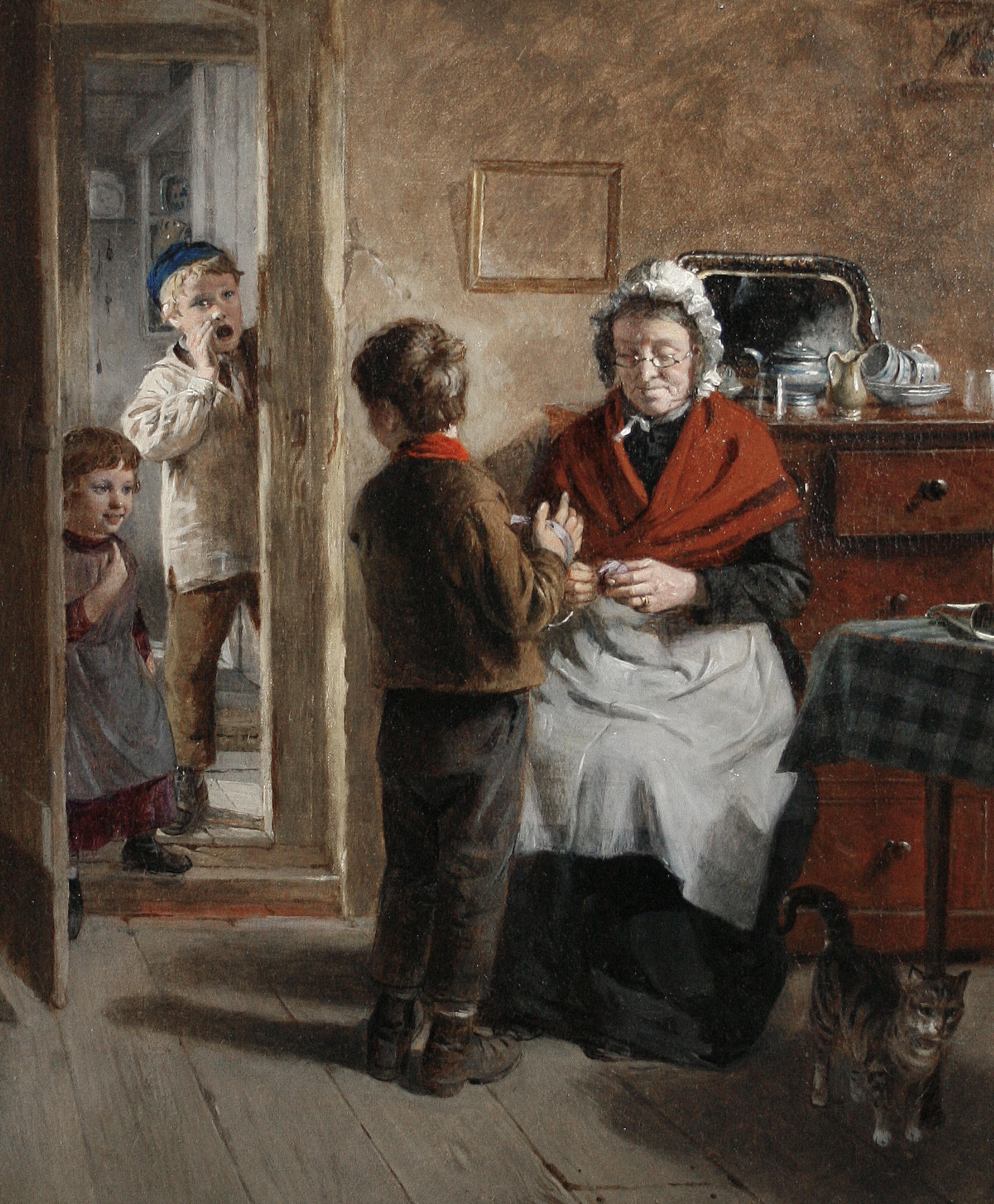 Divided attention. Signed W. Hemsley. Oil on canvas. 39 x 32 cm